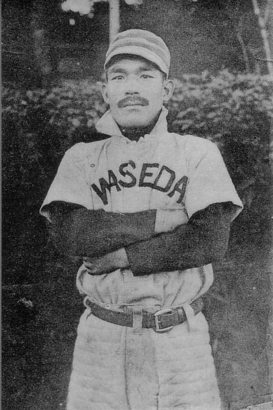 a Japanese baseball player, 橋戸頑鉄（Gantetsu Hashido）